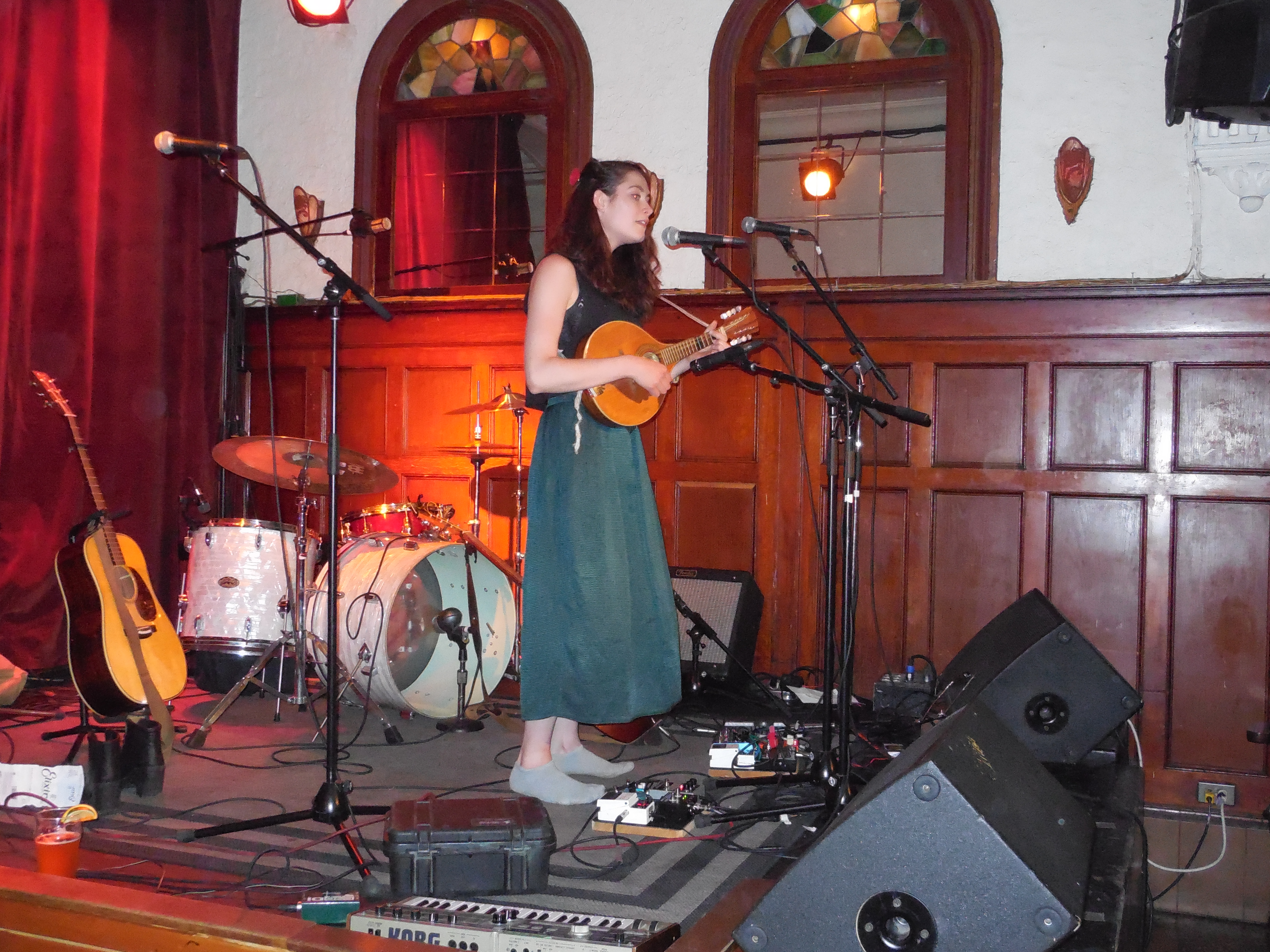 Rachel Sermanni performing at Quai des Brumes, Montreal, 16 July 2015